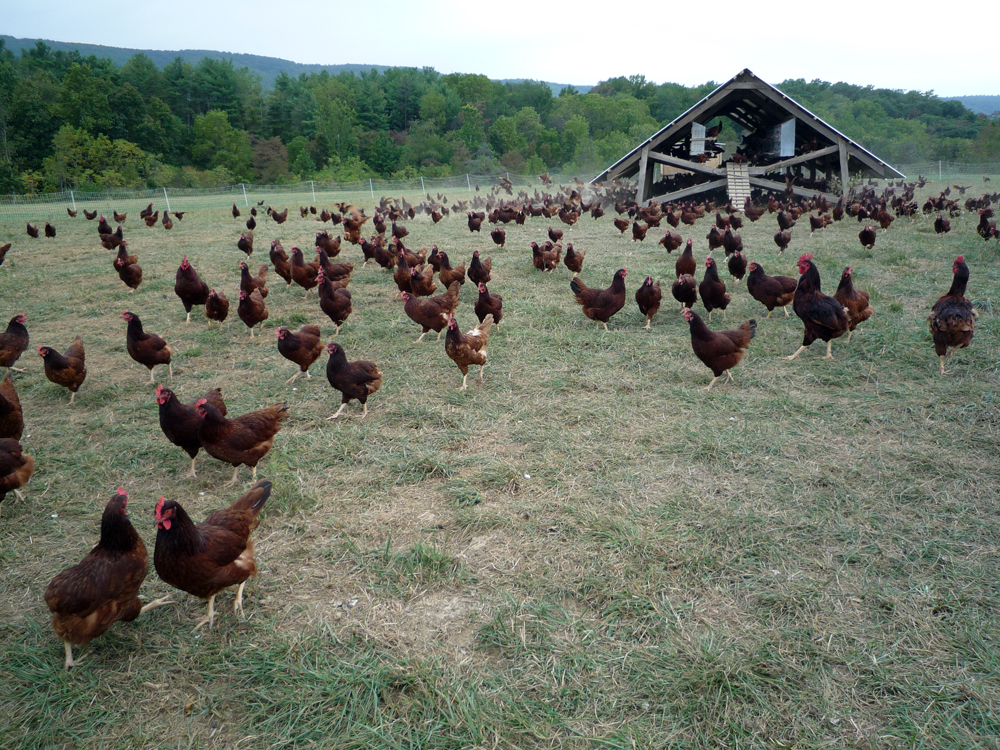 Approaching the Eggmobile, at Polyface Farms in Virginia.